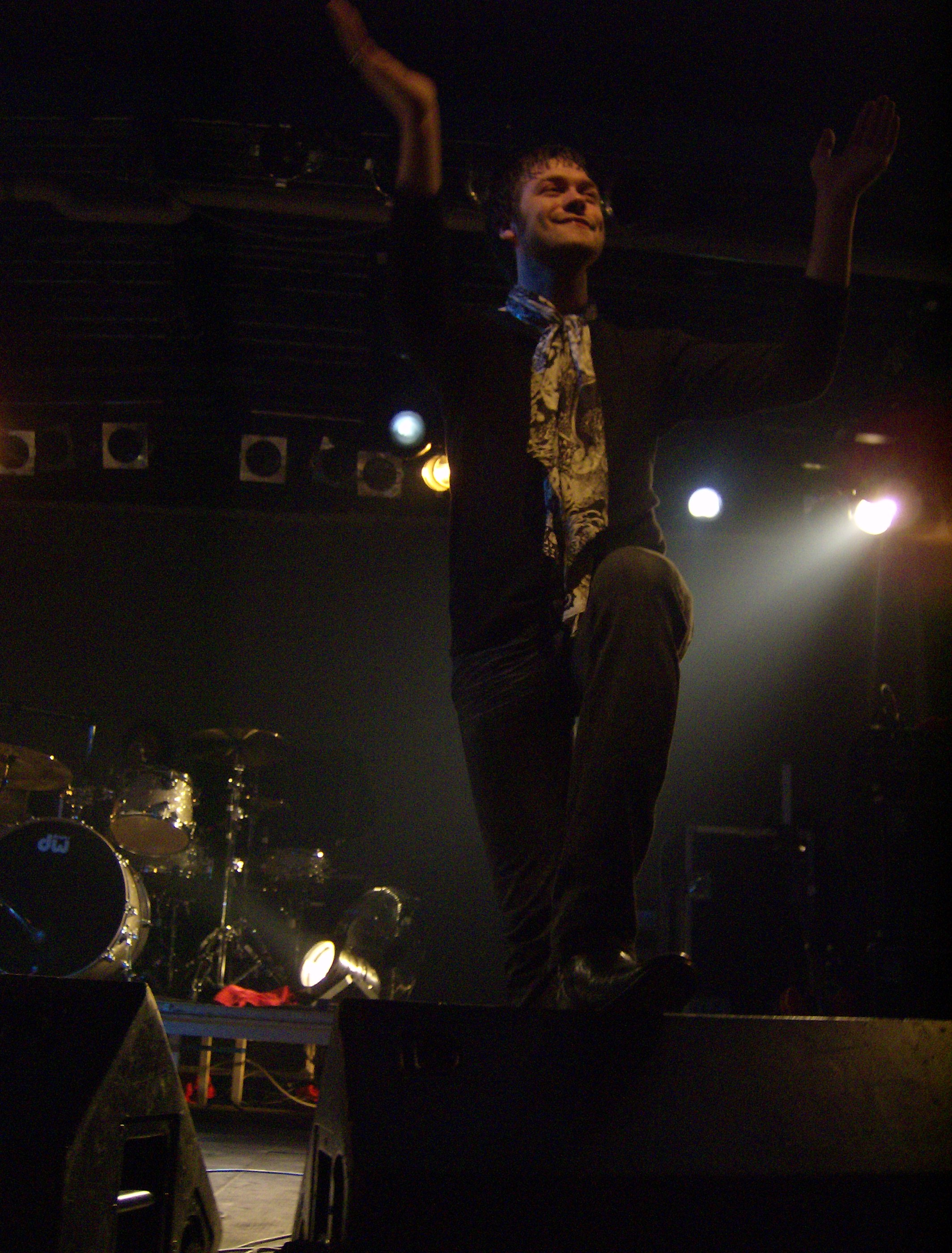 Thom Meighan in concert with Kasabian, at Backstage Werk in Munich, Germany, on February 17, 2007